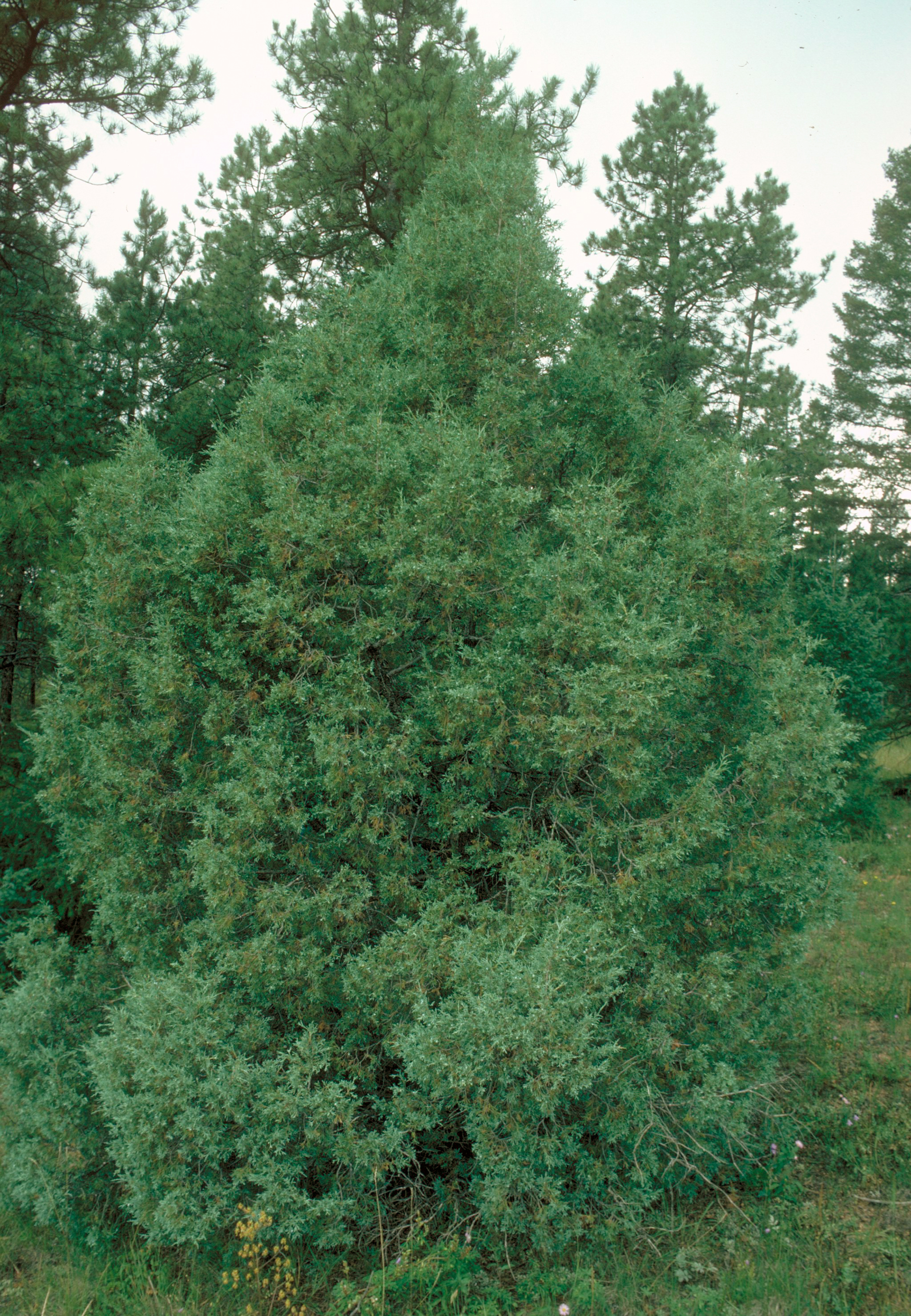 Juniperus scopulorum tree, in Pinus ponderosa forest.